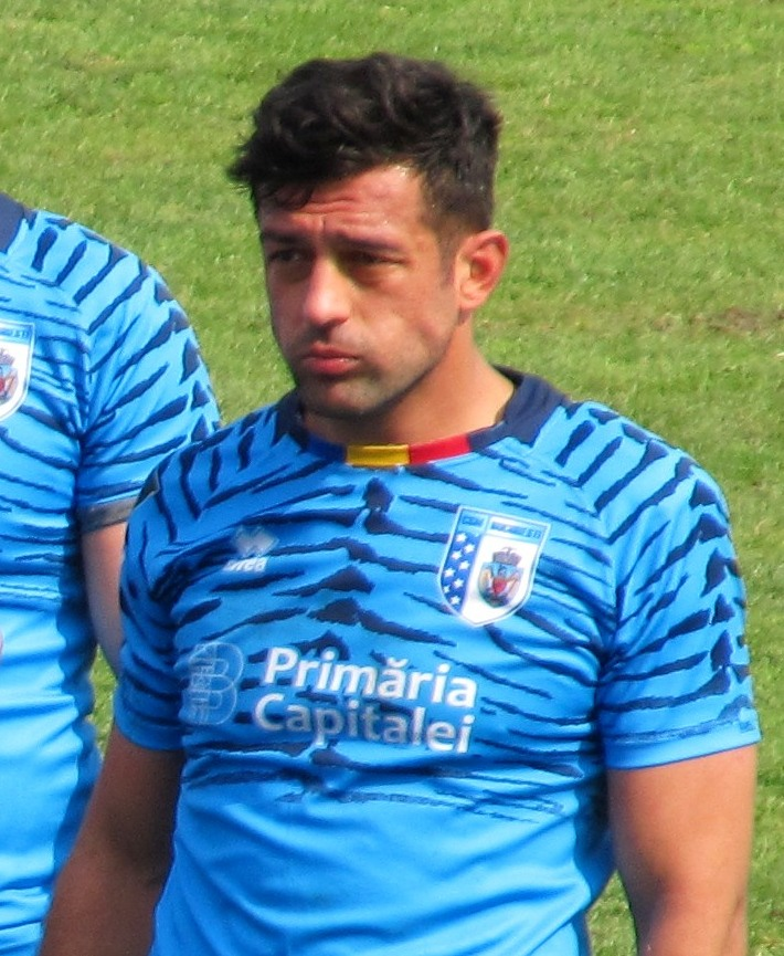 Romanian rugby union football player Adrian Ion during the 2019 Cupa României Final match between his team, CSM București, and rivals Timișoara Saracens in March 2019